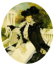 Portrait of Edith Roosevelt, ublic domain image from